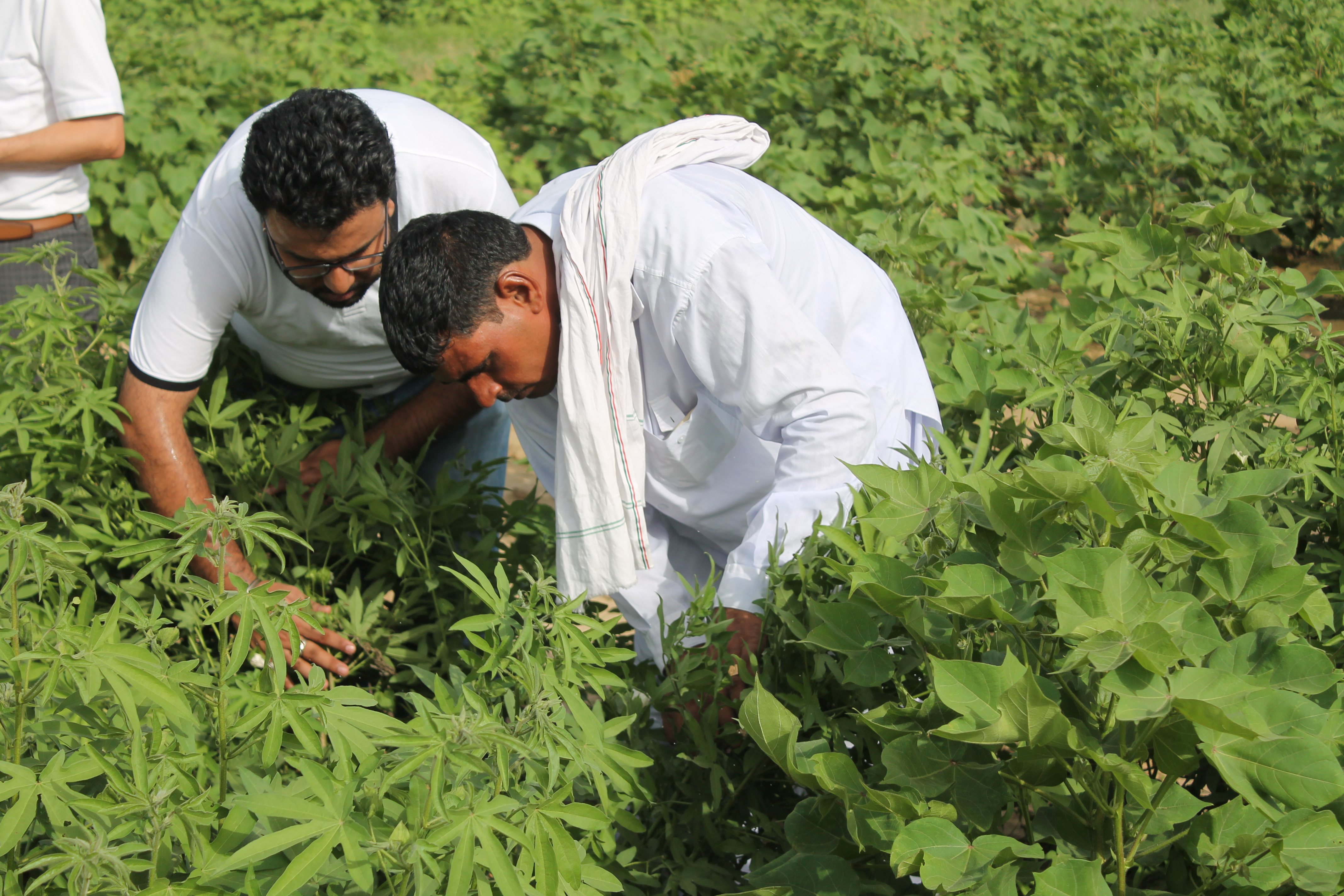 Cotton Farmer from Jandli Khurd Village in Fatehabad District of Haryana. Observing his 50 day old Cotton Crop with Agriculture Professionals.